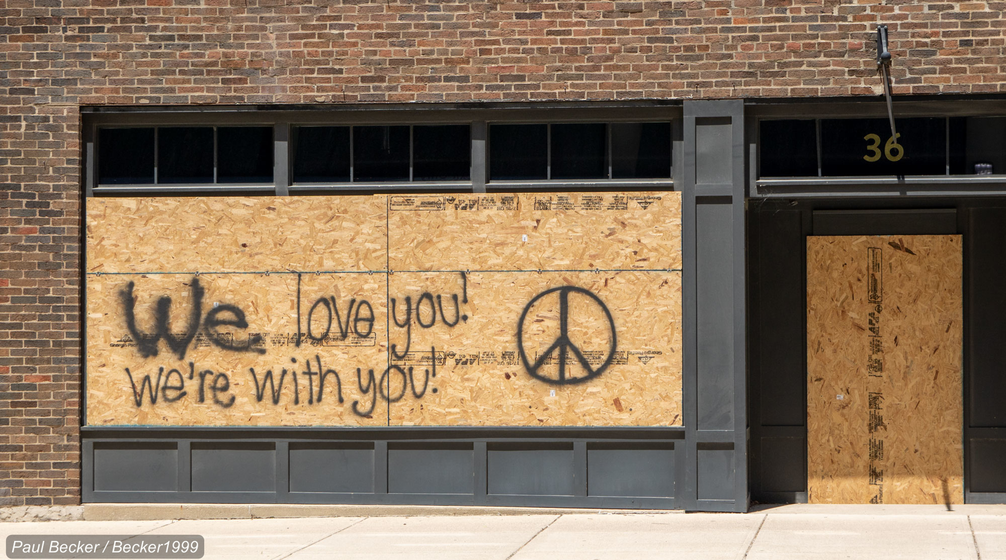 Columbus Protests: Day 7 (6th downtown)